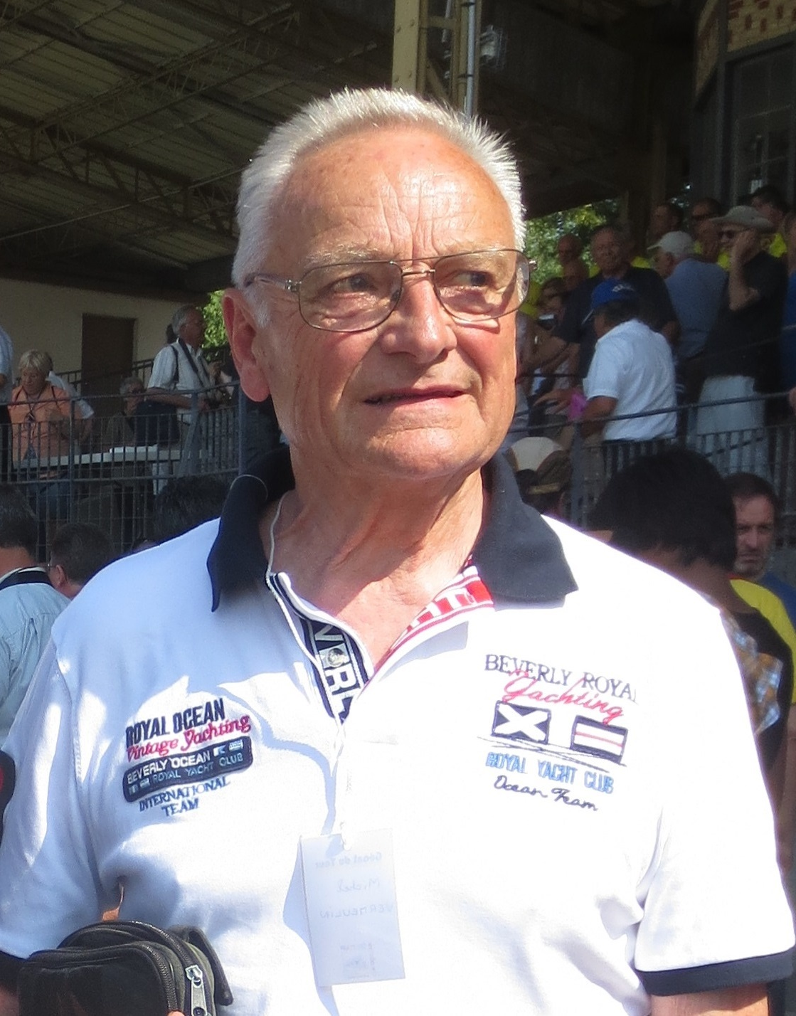 Michel Vermeulin in Paris during the 2013 Tour de France